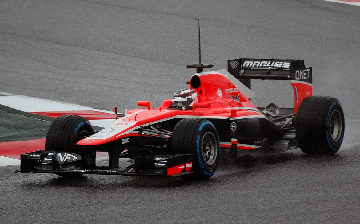 Chilton driving on day 1 of the Barcelona test 2